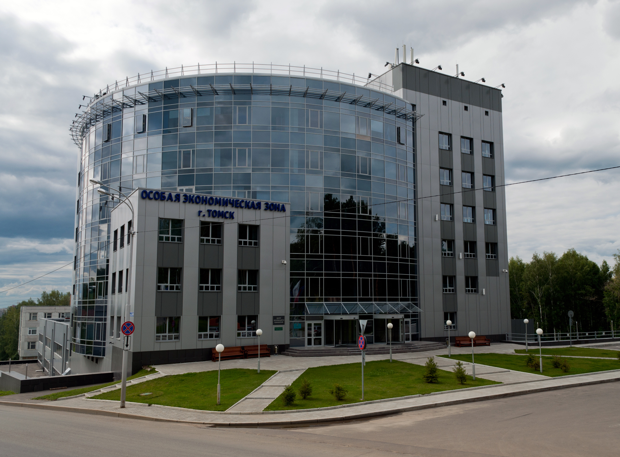 Special Economic zones of Technology-innovative type in Tomsk. Center for Innovation and Technology.